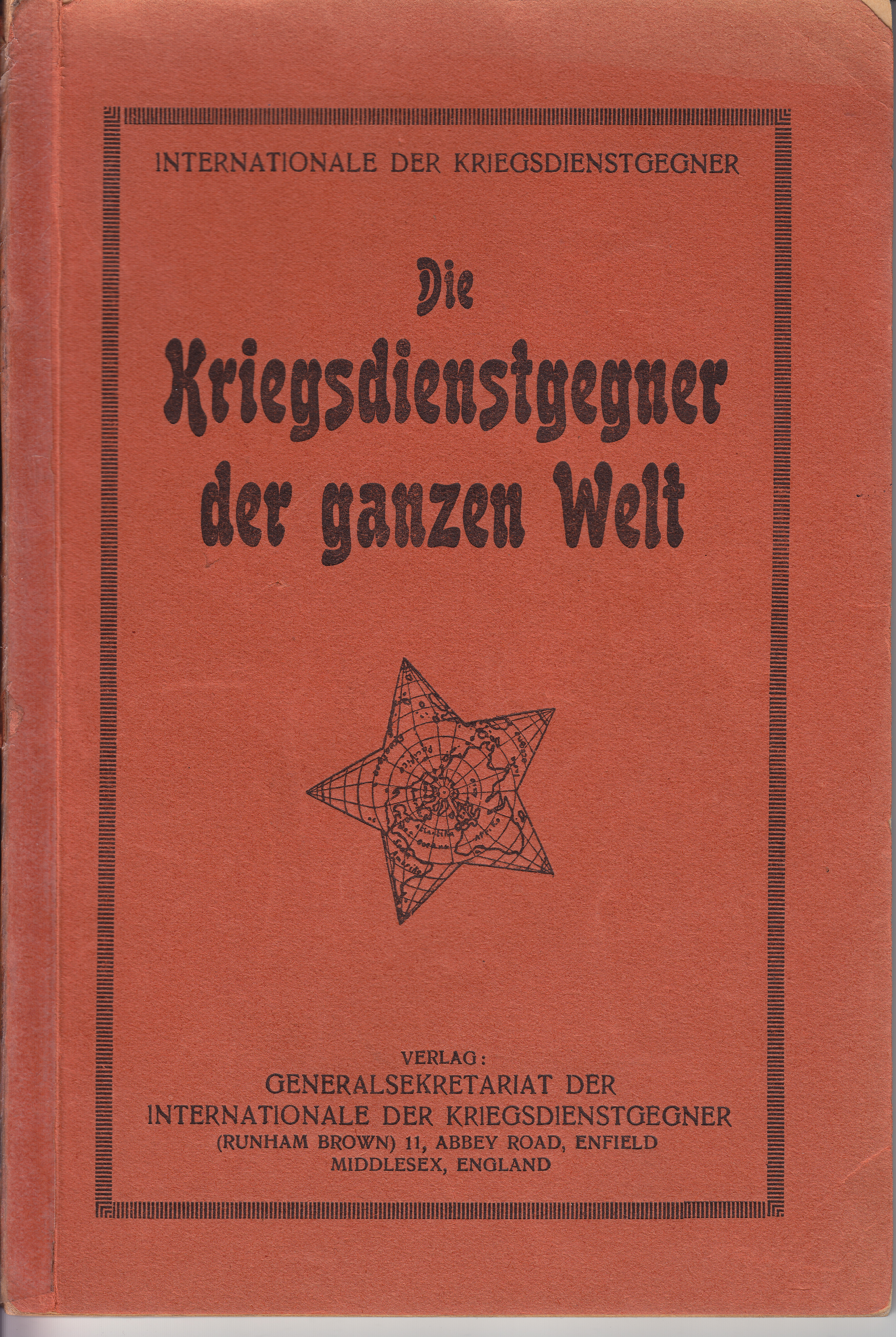 German report - 1925 - international conference of the War Resisters' Internatonal